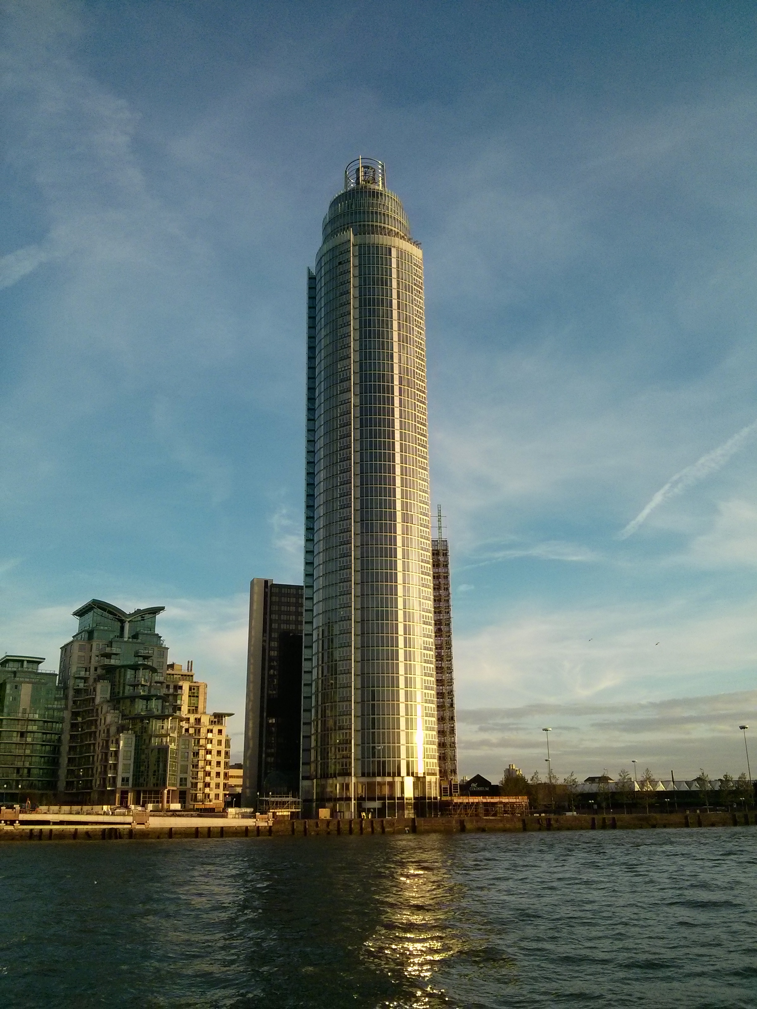 St Georges Wharf Tower, London